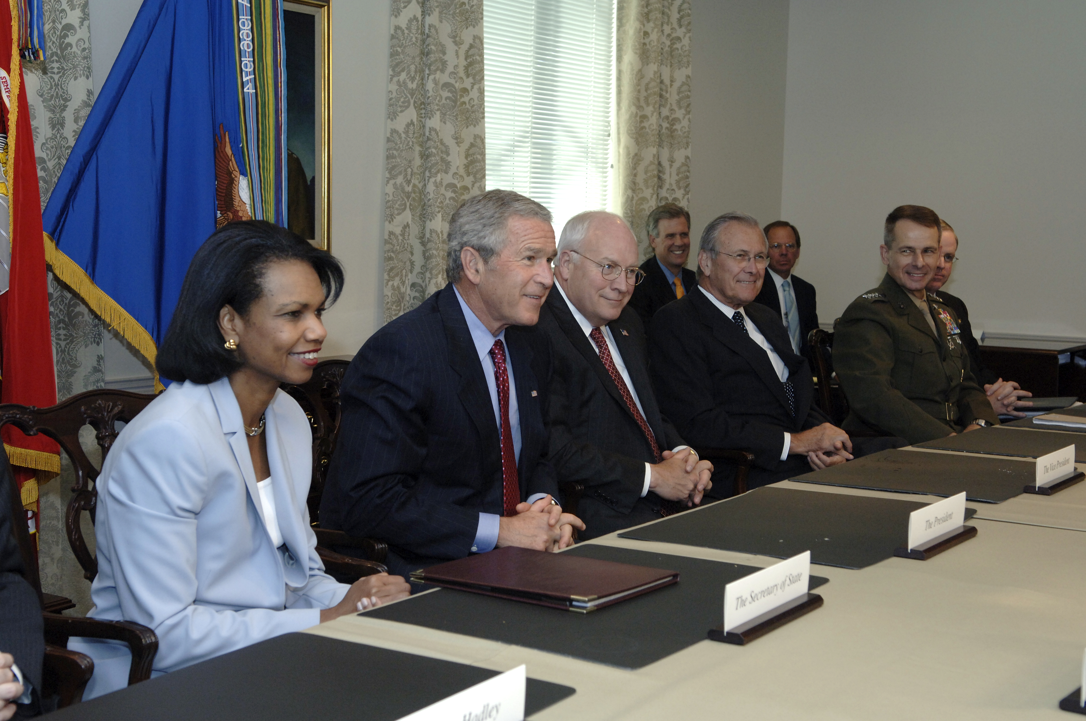 President George W. Bush meets with Secretary of Defense Donald H. Rumsfeld and his staff at the Pentagon, Aug. 14, 2006. From left to right: Secretary of State Condoleeza Rice, President Bush, Vice President Dick Cheney, Secretary Rumsfeld, and Chairman of the Joint Chiefs of Staff Marine Gen. Peter Pace.